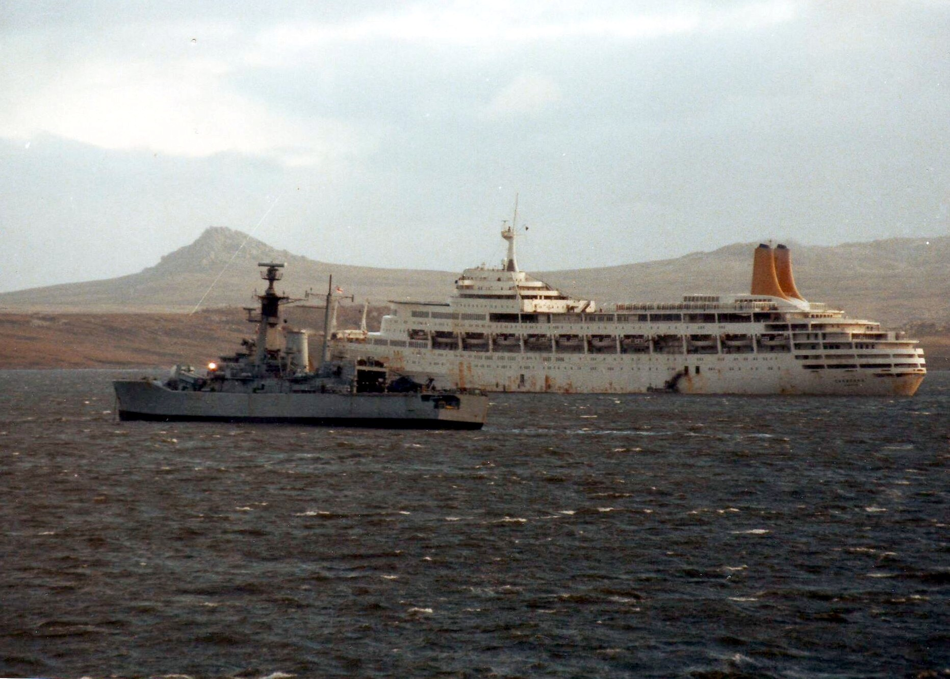 SS Canberra and HMS Andromeda (F57) outside Port Stanley, Falkland Islands, just after the surrender of Argentine forces on 14 June 1982. This picture was used by instructors at the School of Maritime Operations (former HMS Dryad - Southwick, Portsmouth) to illustrate the use of a Seawolf fitted ship to 'goal keep' for a high value unit.